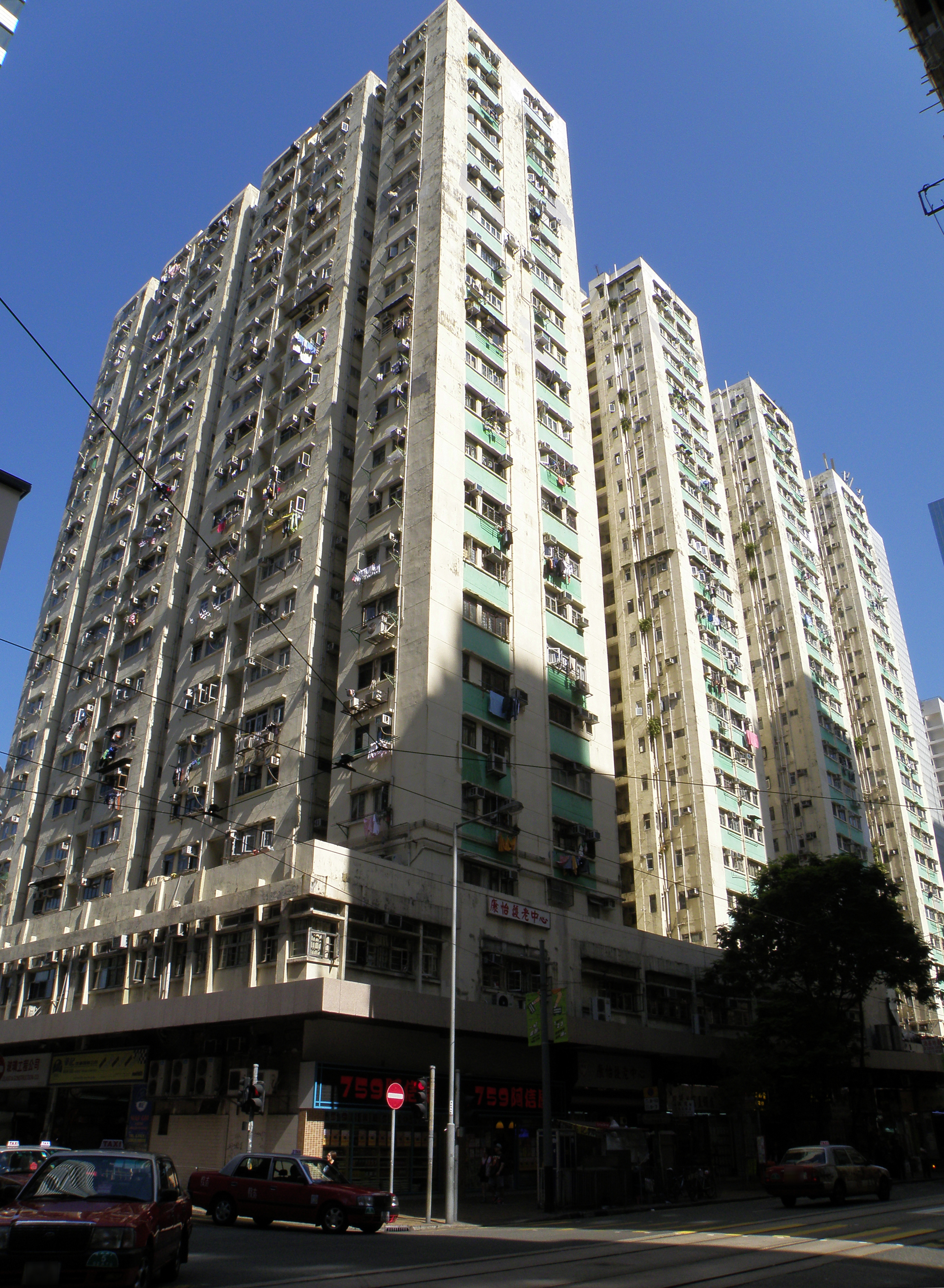 Kwan Yick Building - Phase II in Shek Tong Tsui, Hong Kong.